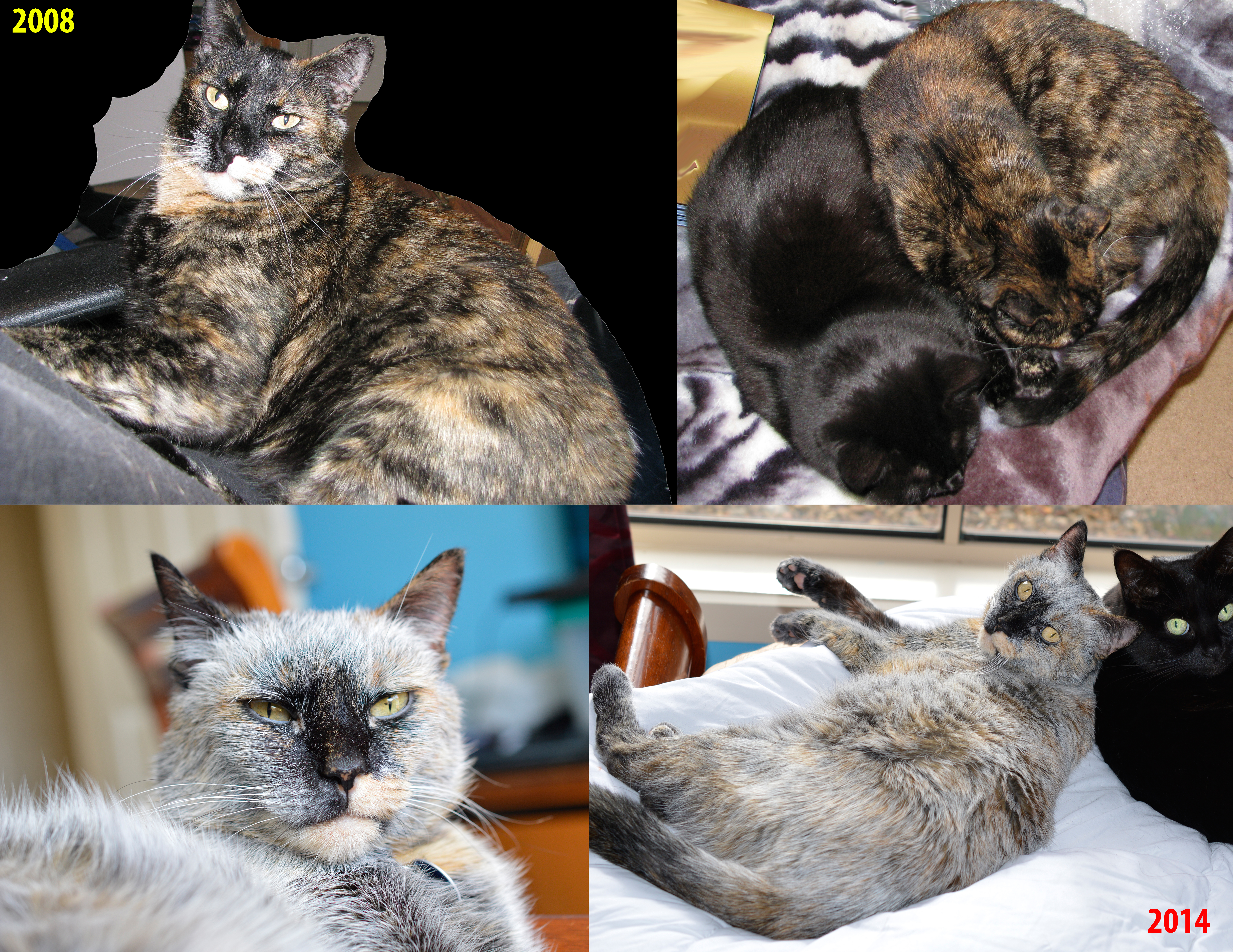 A case of apoptosis in an adult cat resulting in gradual depigmentation of skin and fur, making the cat almost completely white over the period of 6 years. Note the slow pigment change around the nose and eyes.